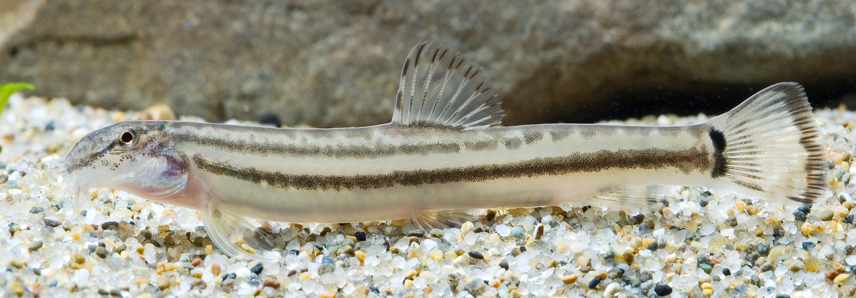 Cobitis sp.2 subsp.4